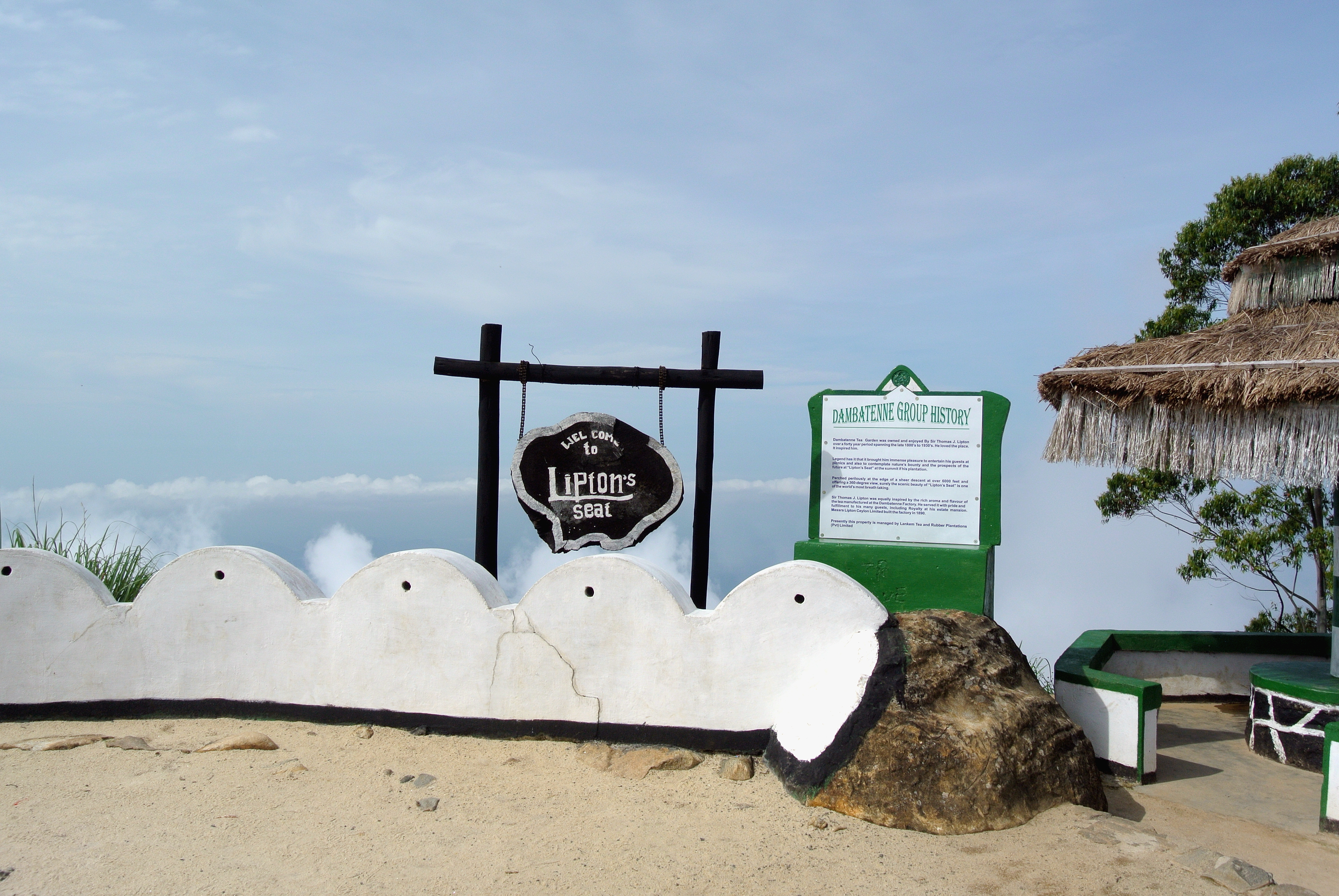 The so-called Lipton's seat, a place in Haputale surrounded by tea fields, 1,905 metres (6,250 ft) above sea level.